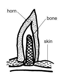 By Ruth Lawson. Otago Polytechnic.